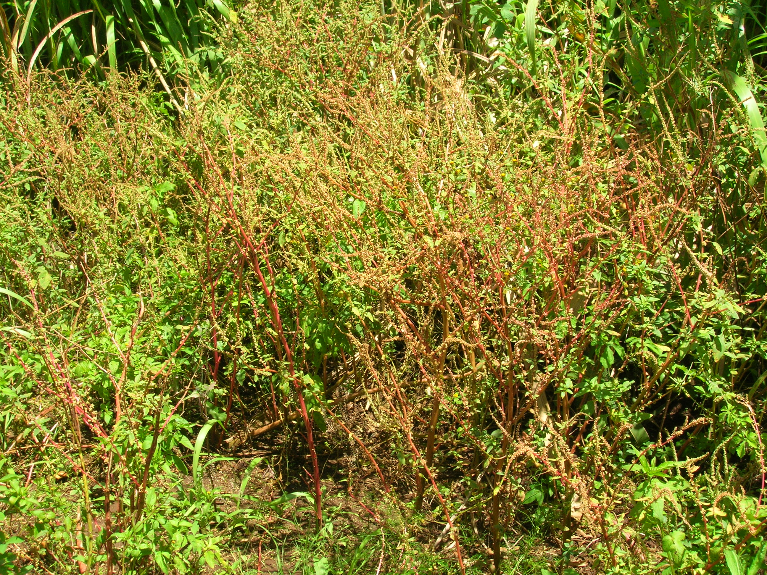 Amaranthus spinosus (habit). Location: Maui, Paia